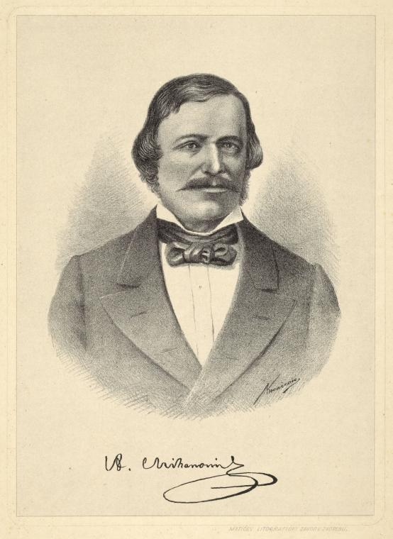 Antun Mihanović (10 June 1796 – 14 November 1861) was a notable Croatian poet and lyricist, most famous for writing the national anthem of Croatia